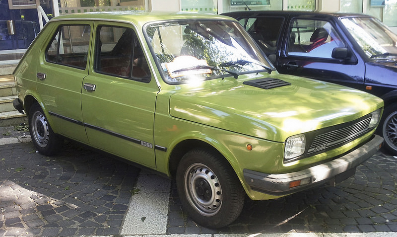 Fiat 127 900C 1980 5 porte